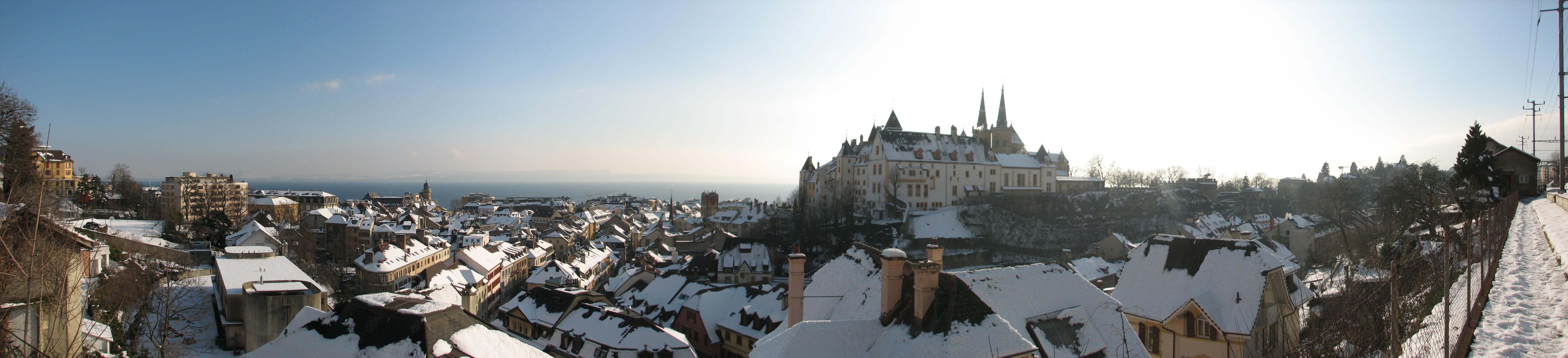 Winter panorama of the castle and the city of Neuchâtel